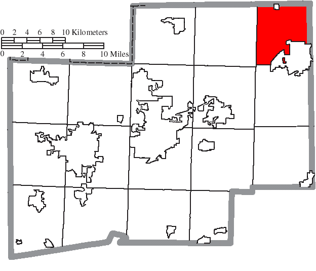 Map of the municipal and township boundaries of Stark County, Ohio, United States, as of the 2000 census, with the location of Lexington Township highlighted. Township borders are shown only in unincorporated areas in order to differentiate incorporated and unincorporated areas more clearly.